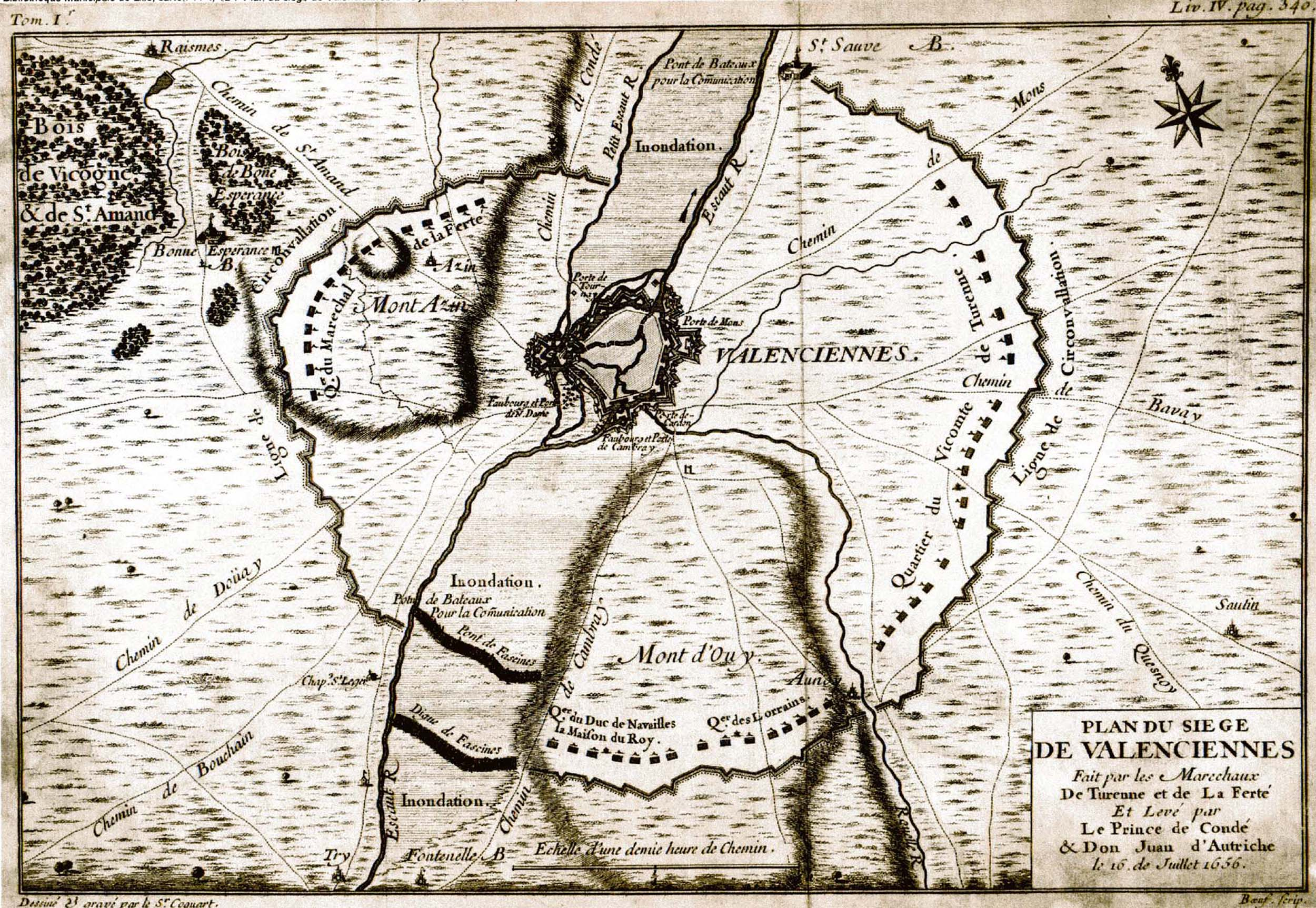 Siege of Valenciennes in 1656